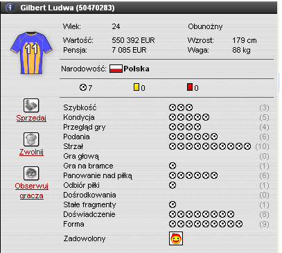 player mz